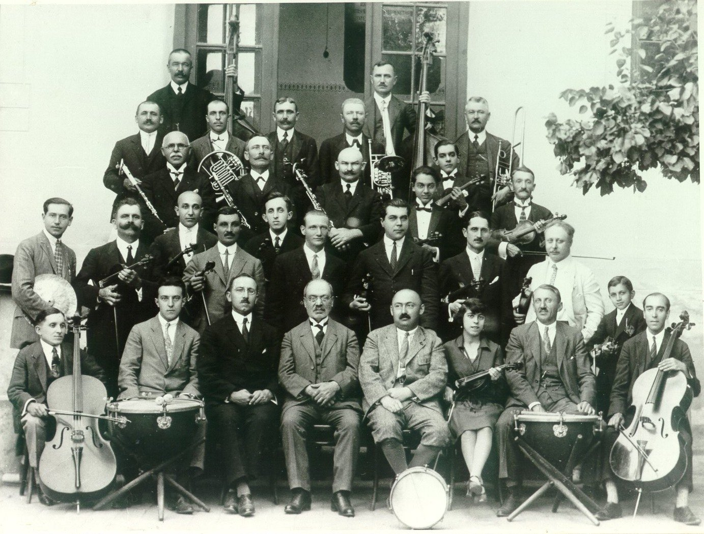 The Cultural Association of Szentes band at the end of 1920. (In the middle sits Ferenc Derzsi Kovács, the right hand his son, Jeno)